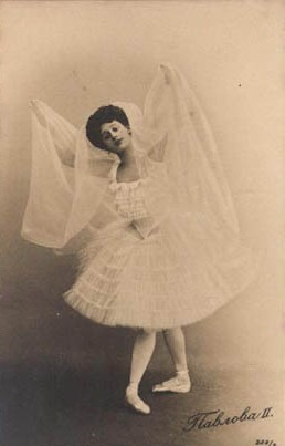 Photo of the Ballerina Anna Pavlova in "La Bayadere", St. Petersbuirg, Russia, 1900-1901. Photo comes from my collection and was scanned by me. Mrlopez2681 22:21, 25 November 2006 (UTC)